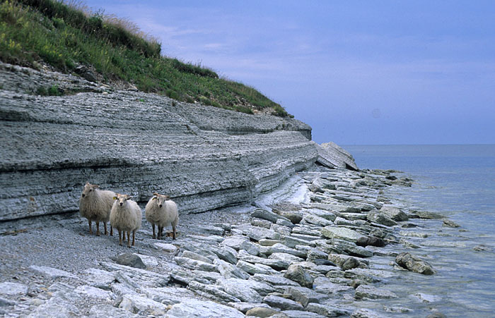 Sheep on the isle of Osmussaar